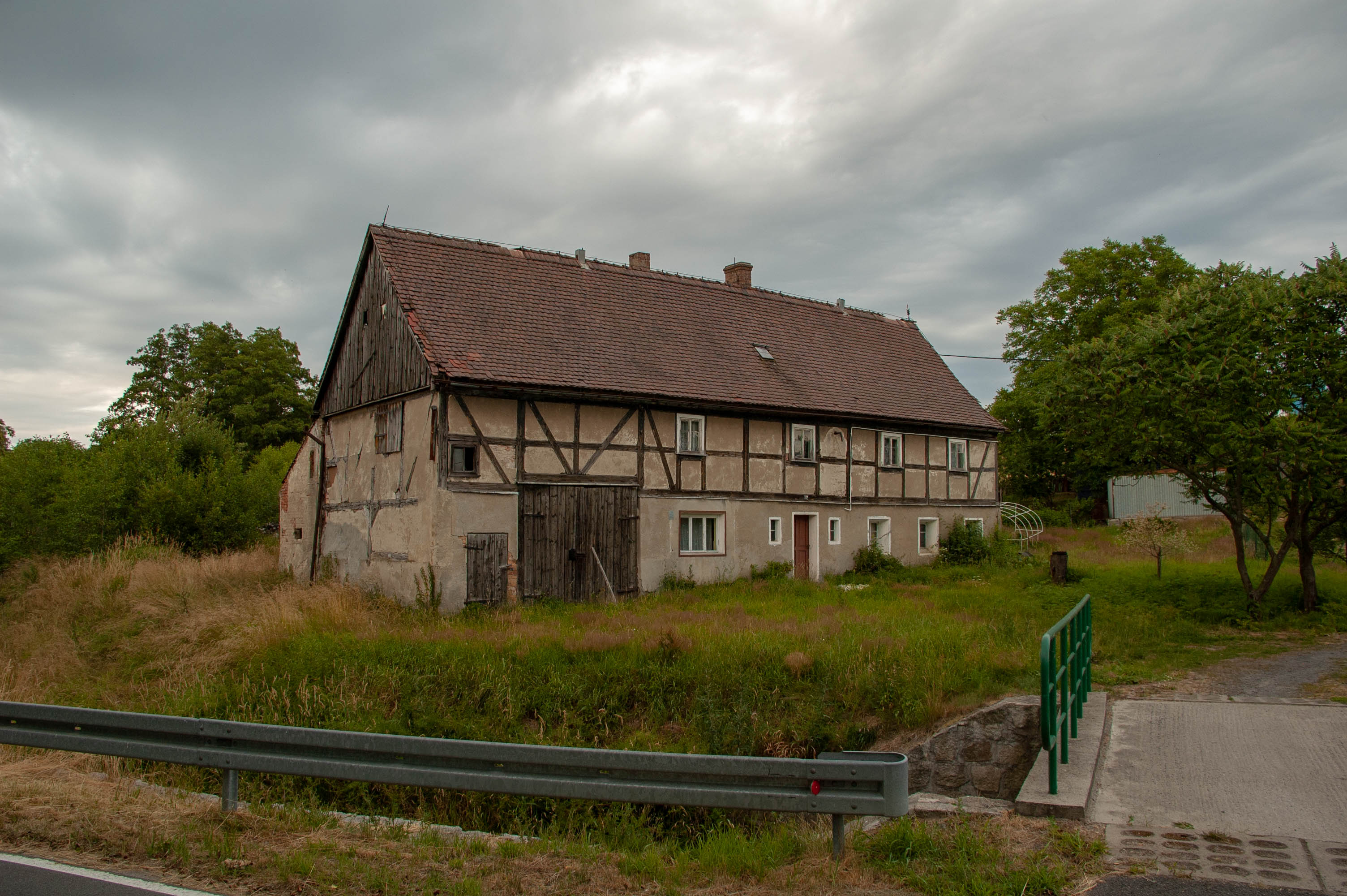 This photograph was created as a part of Wikiexpedition Lower Silesia, a project supported by Wikimedia Poland grant.